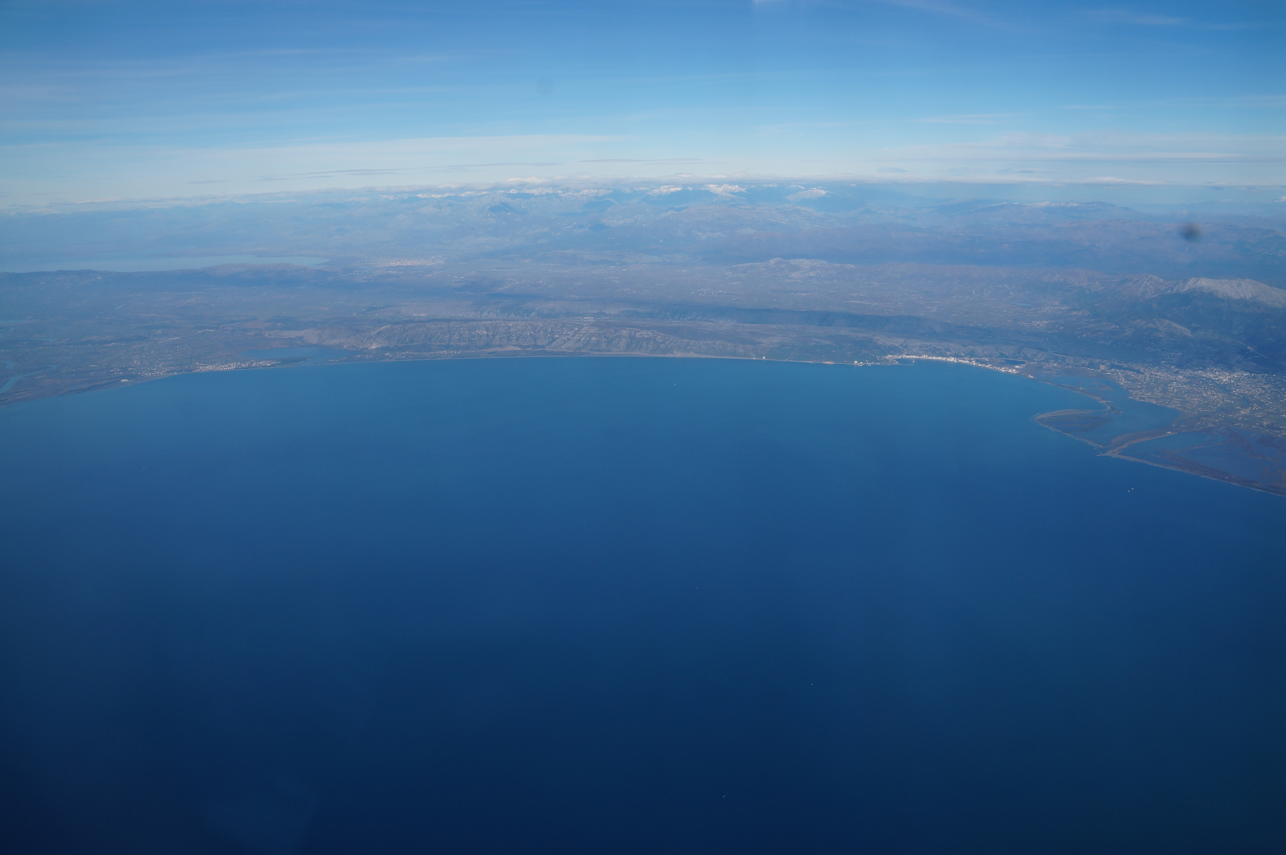 Drin Gulf, northern part